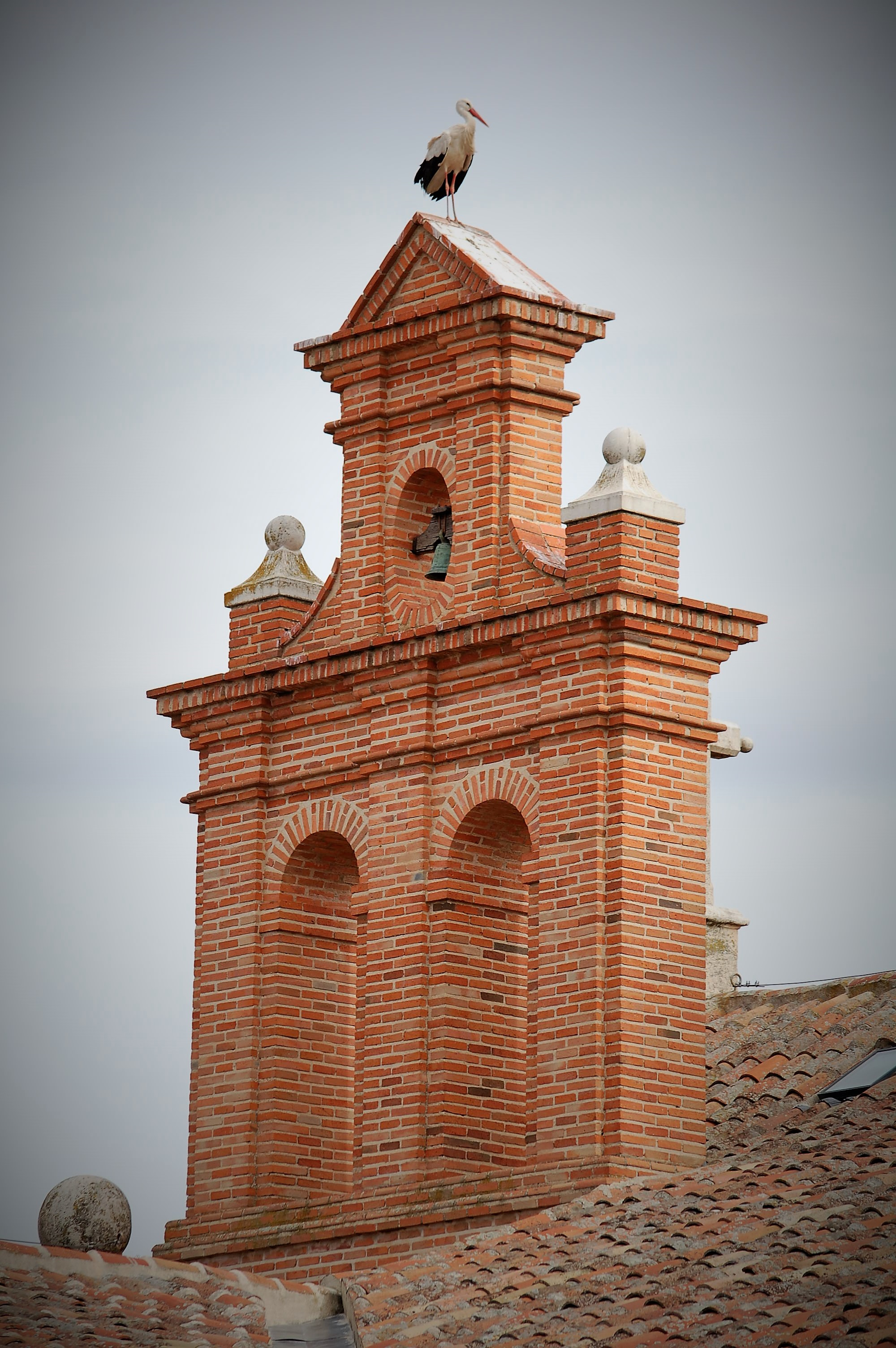 Stork on the bell-gable of the old San Basilio Magno College in Alcalá de Henares (Community of Madrid - Spain).